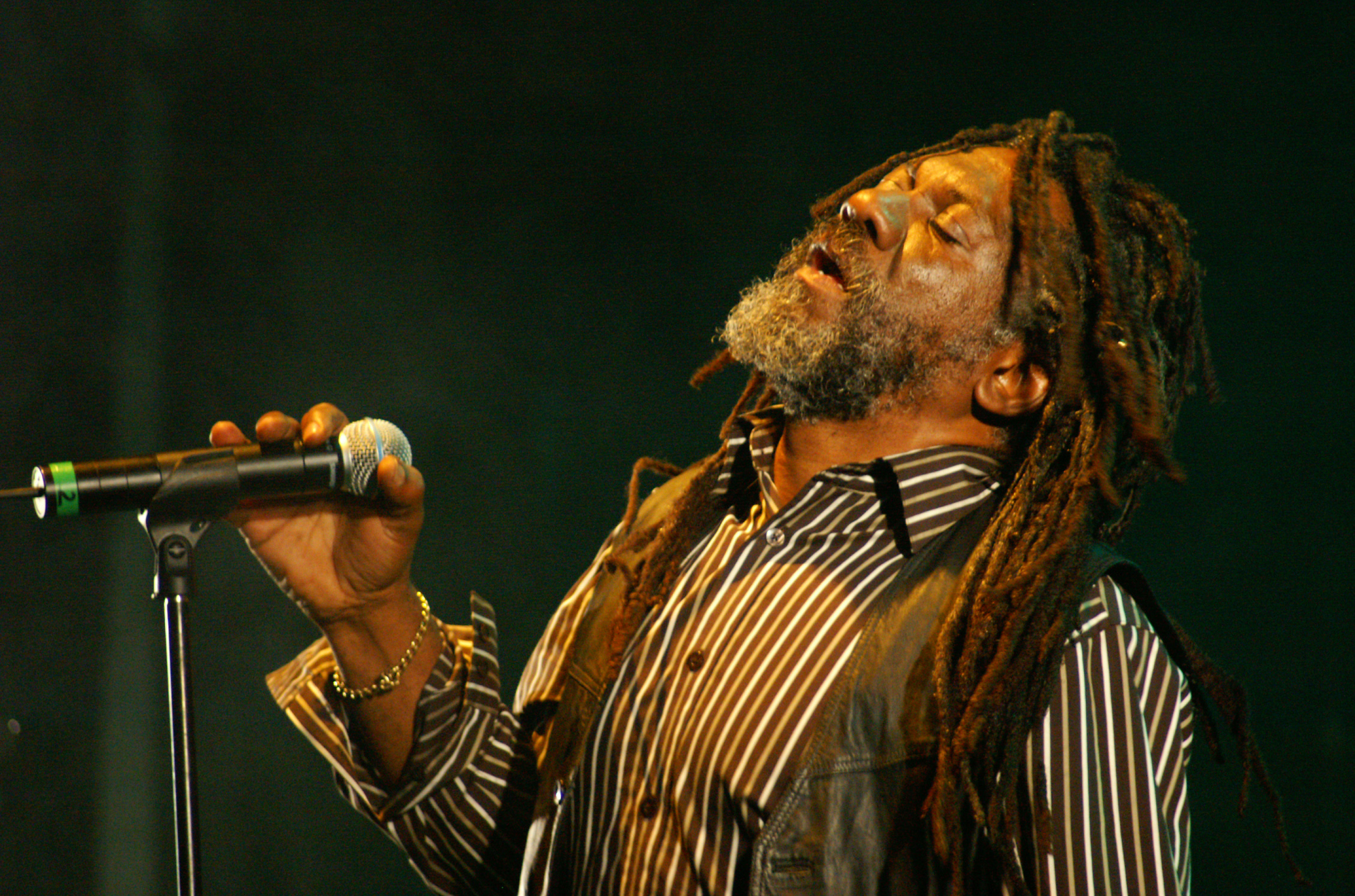 Winston McAnuff live at Aux Zarbs festival (Auxerre, France).